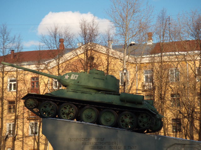 Monument to the heroic work "Kirovchane-frontu" in Kirov, Kirov region.